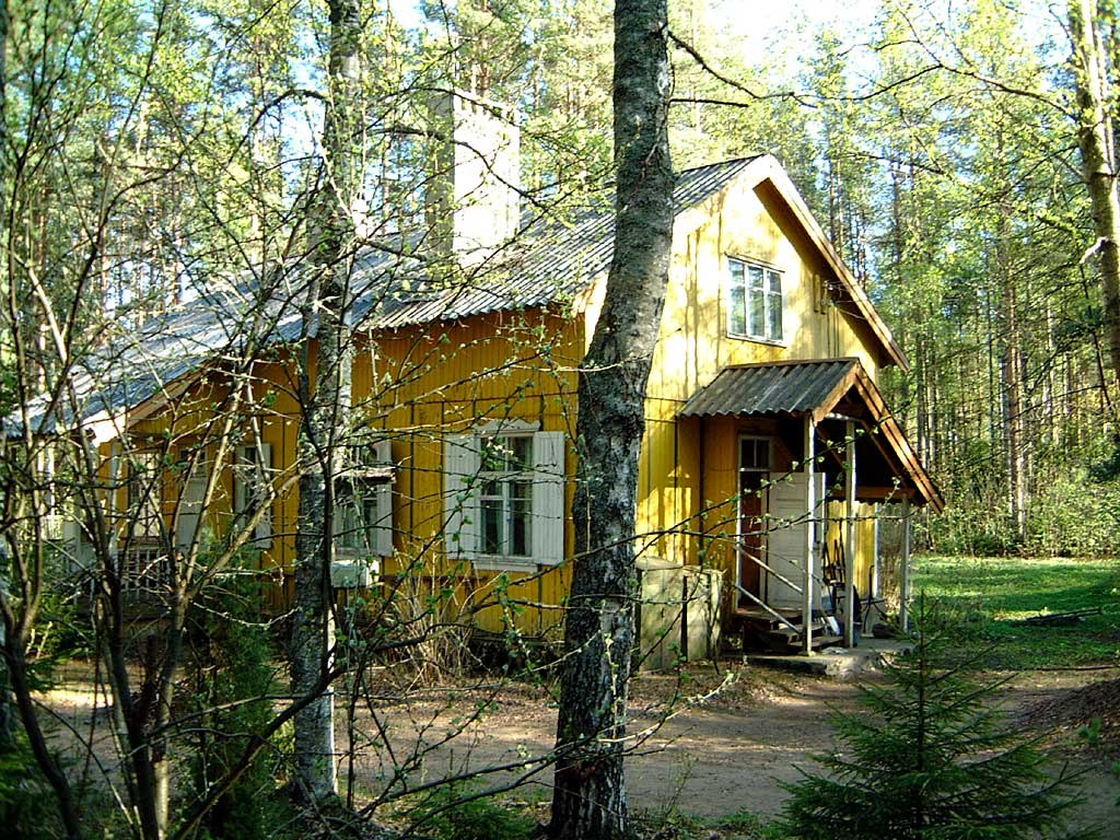 One of standard houses manufactured in Finland and assembled in Komarovo, St.Petersburg, Russia.